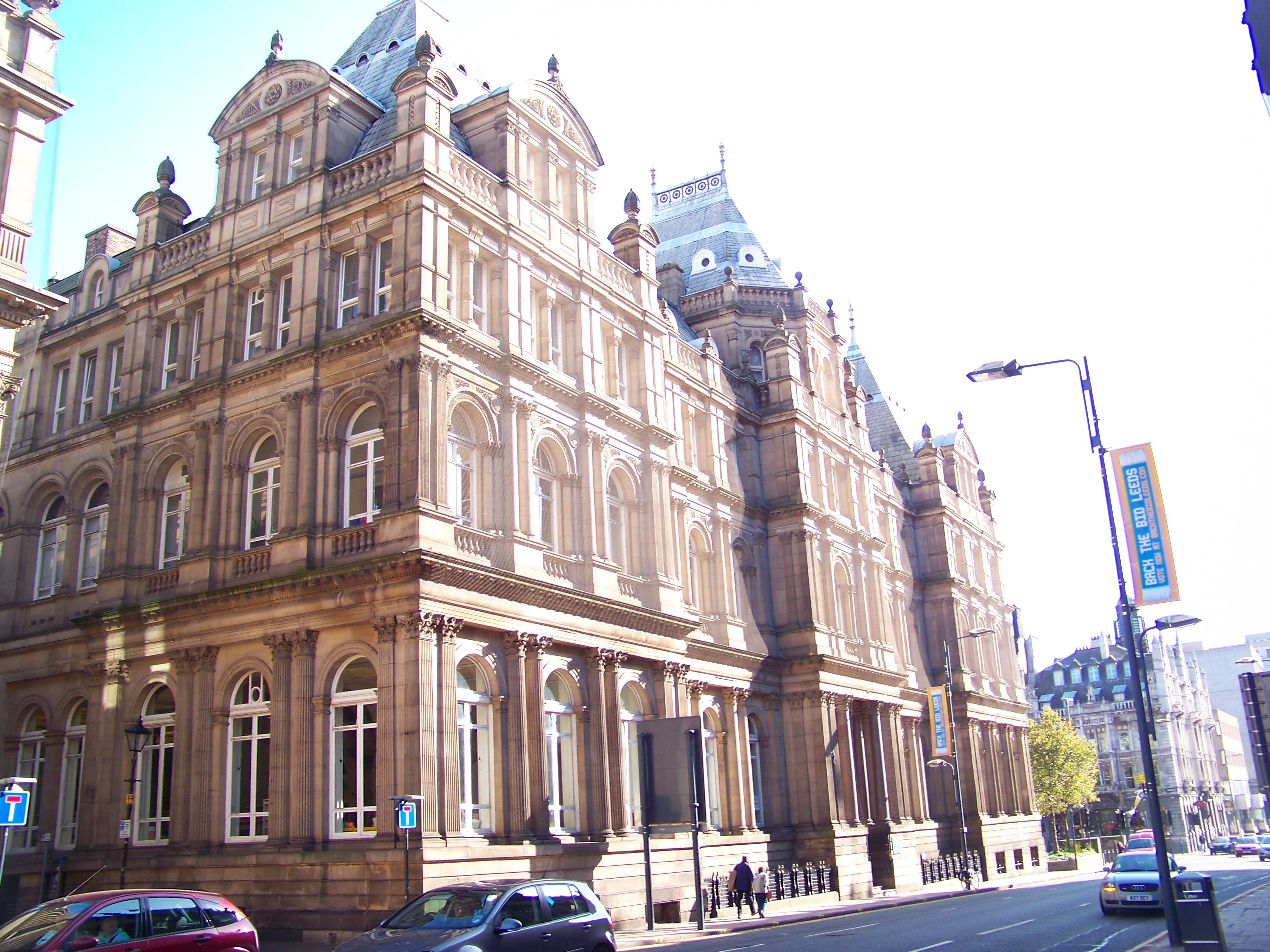 Leeds central library, taken from the junction of Great George Street and Calverley Street. Taken on the afternoon of Saturday the 3rd of October 2009.